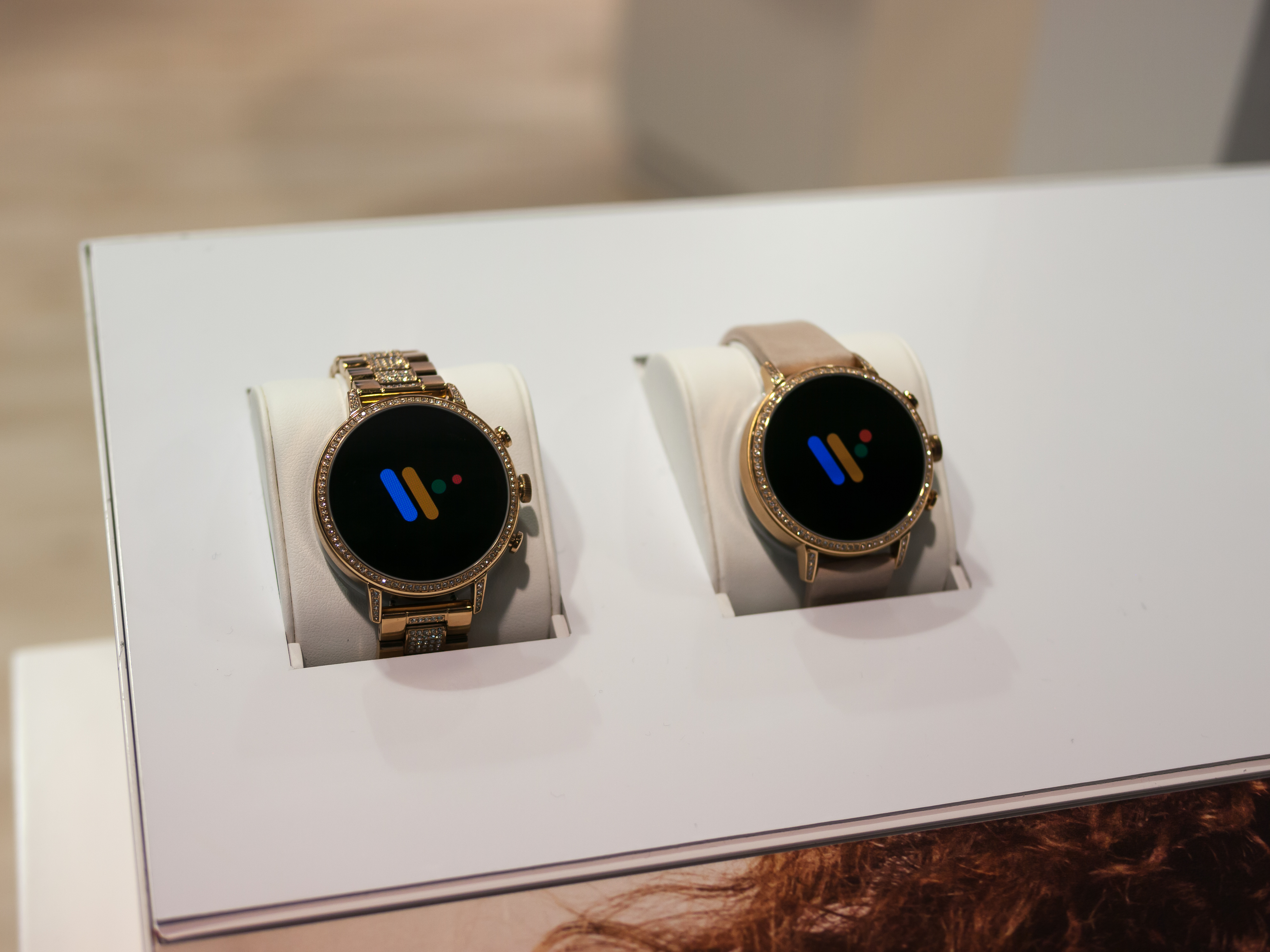 Fossil Group, Internationale Funkausstellung 2018, Berlin